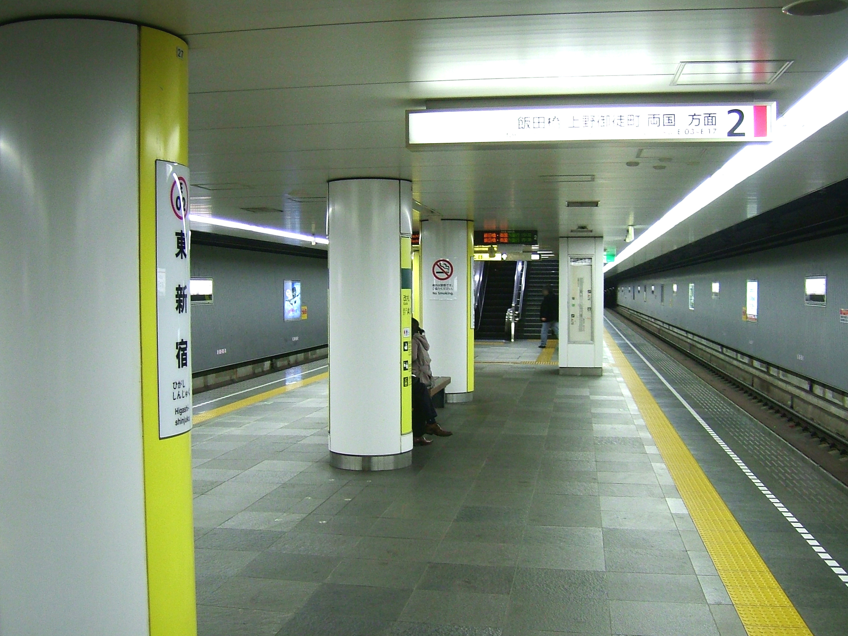 The platform at Higashi-Shinjuku Station on the Toei Ōedo Line in Shinjuku city, Tokyo, Japan